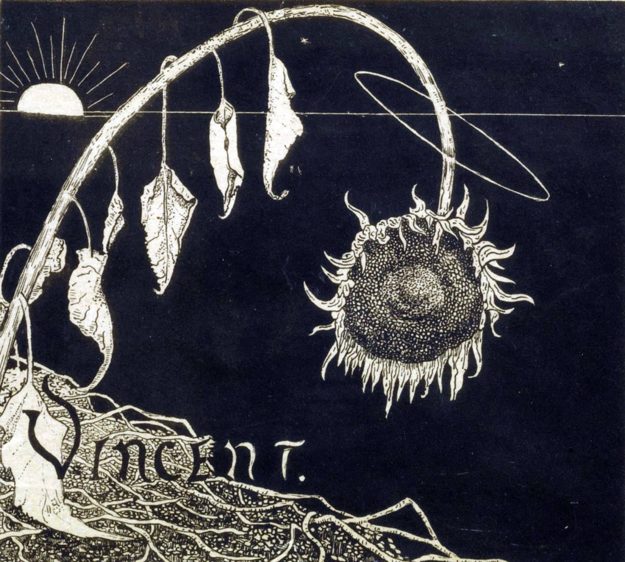 Van Gogh exposition